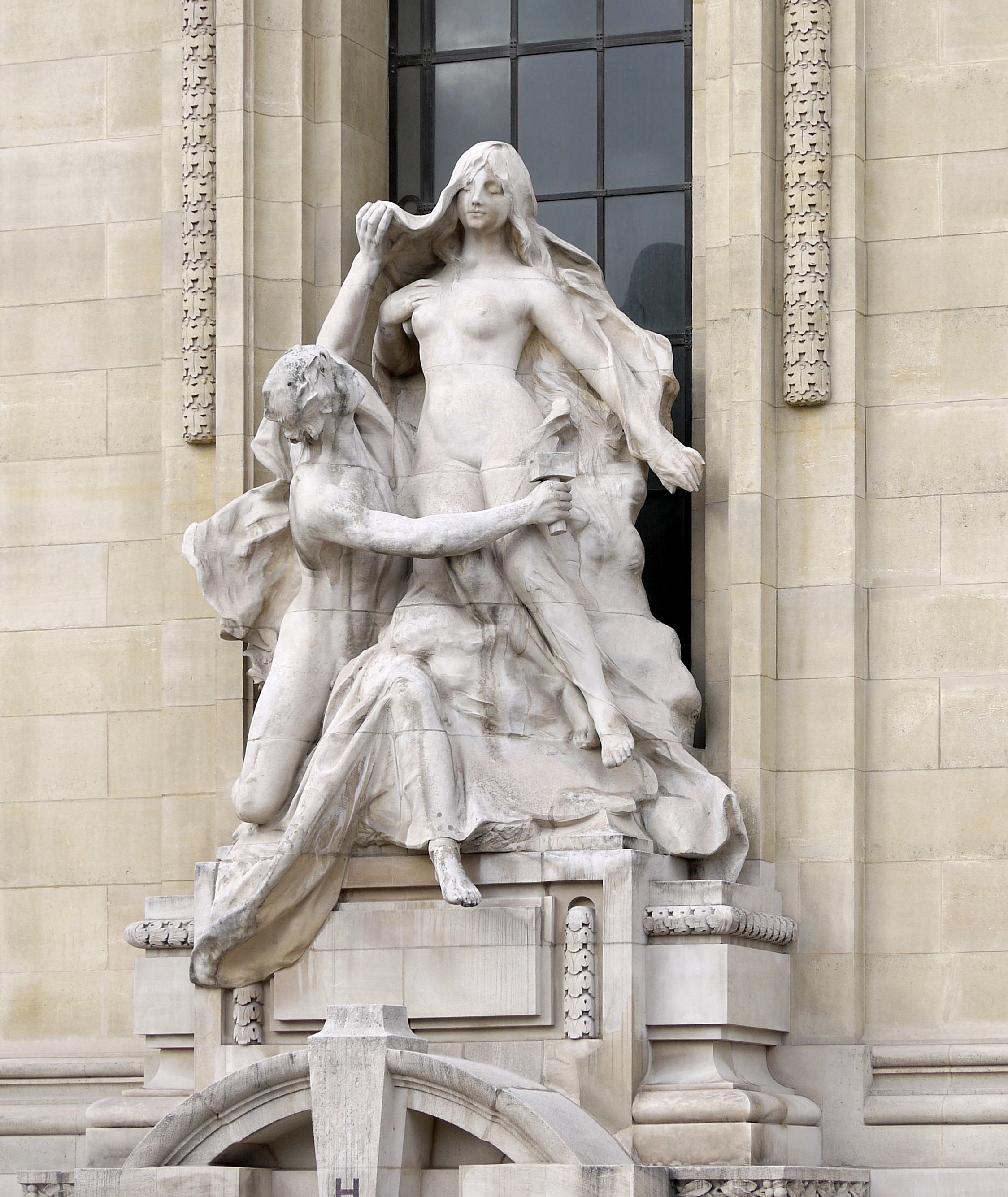 Sculpture in Grand Palais, Paris.